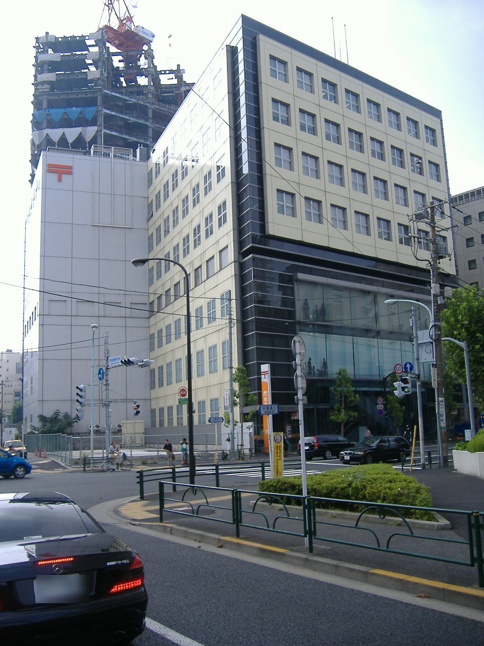 Kanda_Post-Office(Chiyoda, Tokyo)